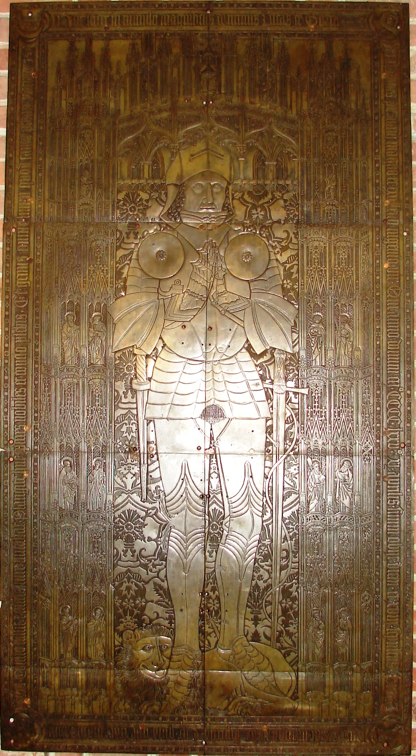 Gothic tomb plate from Visher's workshop of voivod Łukasz I Górka, Poznań Archcathedral Basilica